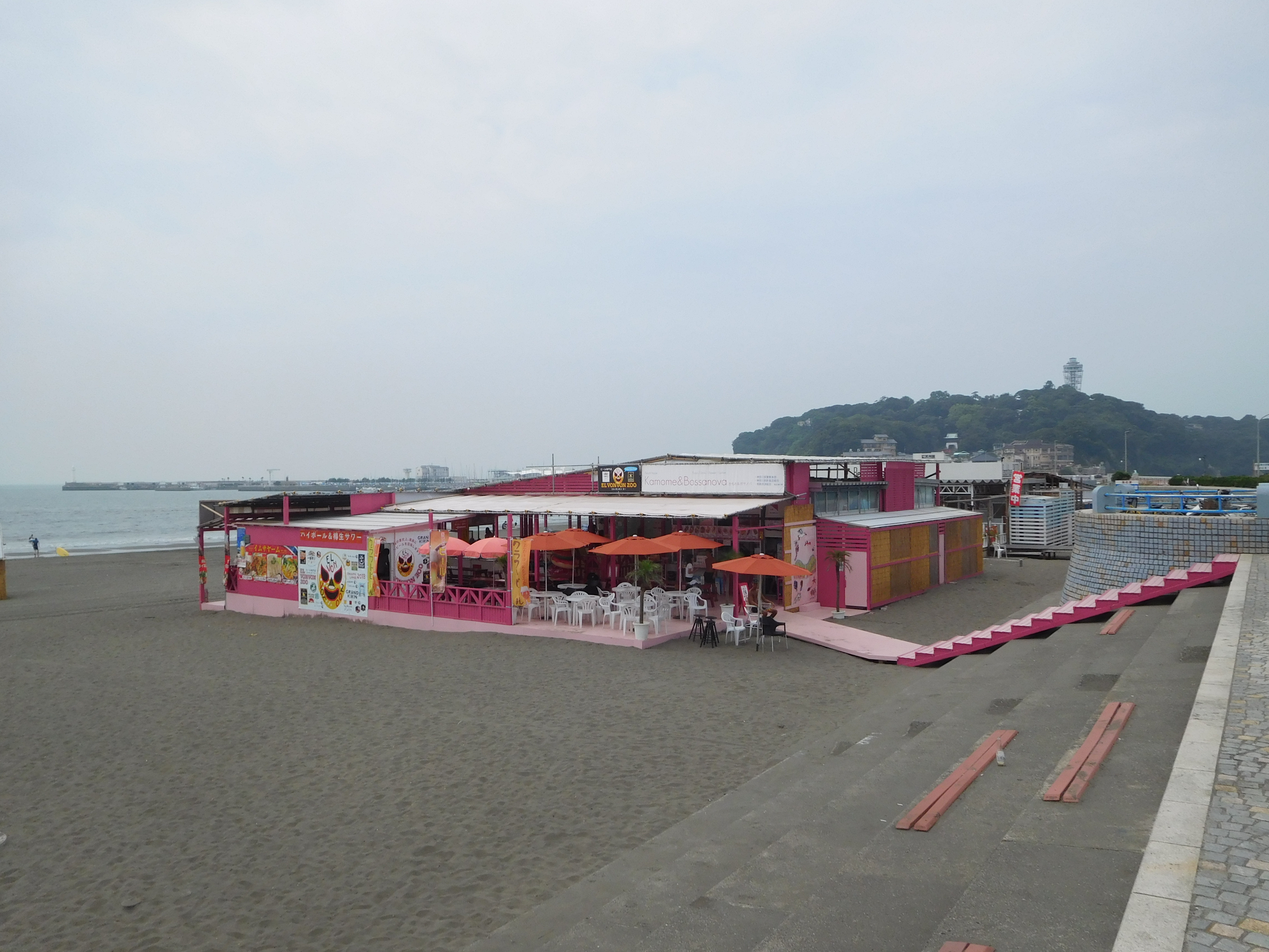 These are beach huts in Katase east beach, Fujisawa, Kanagawa, Japan.